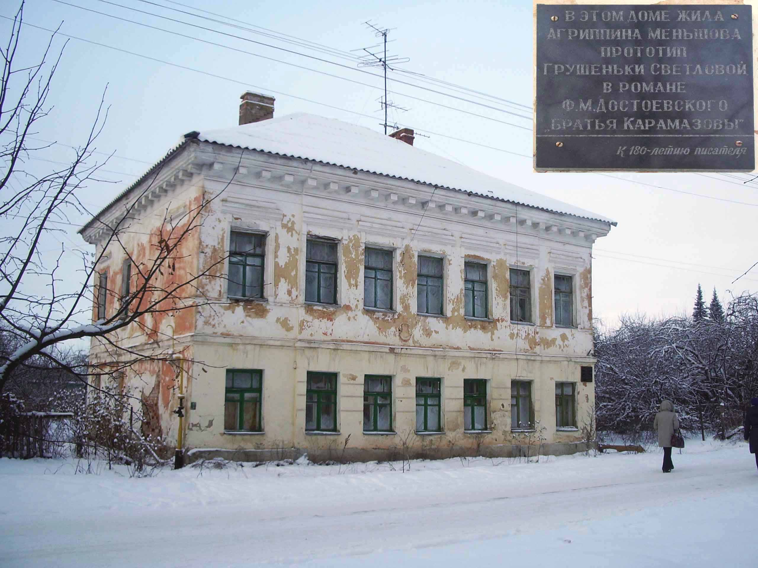 Staraya Russa. The house of Grushenka Menshova, who served as a real-life prototype to the literary character of Grushenka in the Dostoevsky's novel "The Brothers Karamazov".